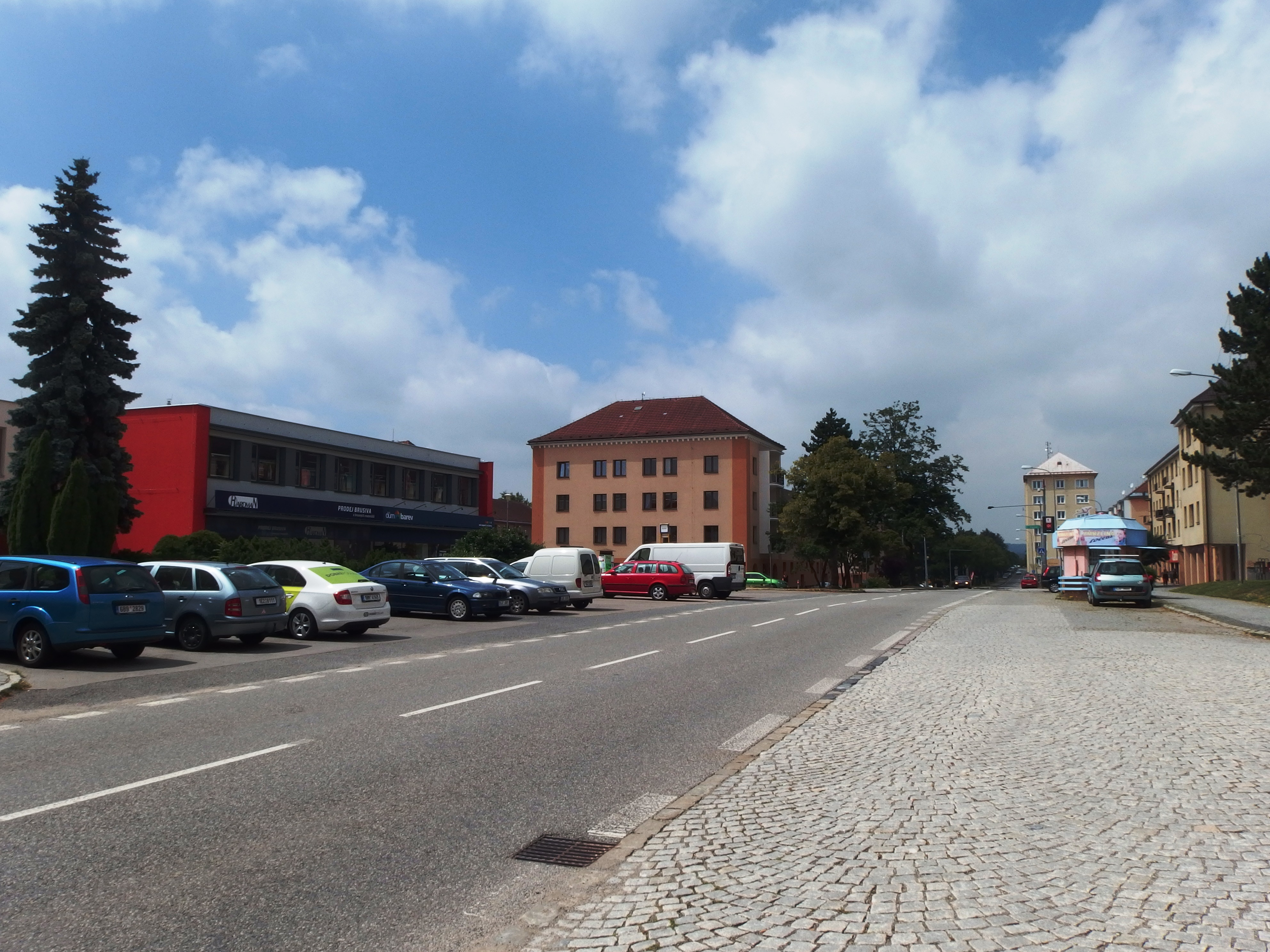 Žďár nad Sázavou, Czechia.